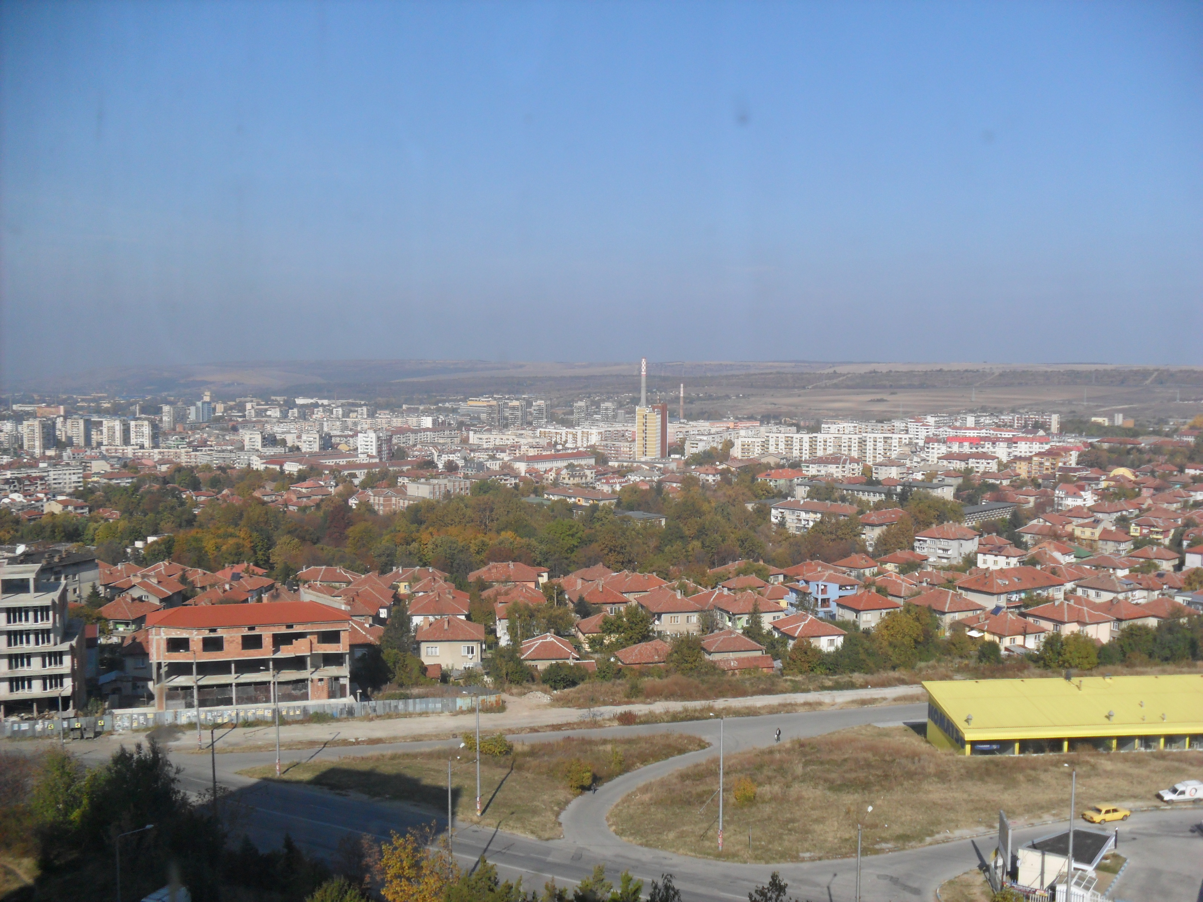 Pleven from looking from East